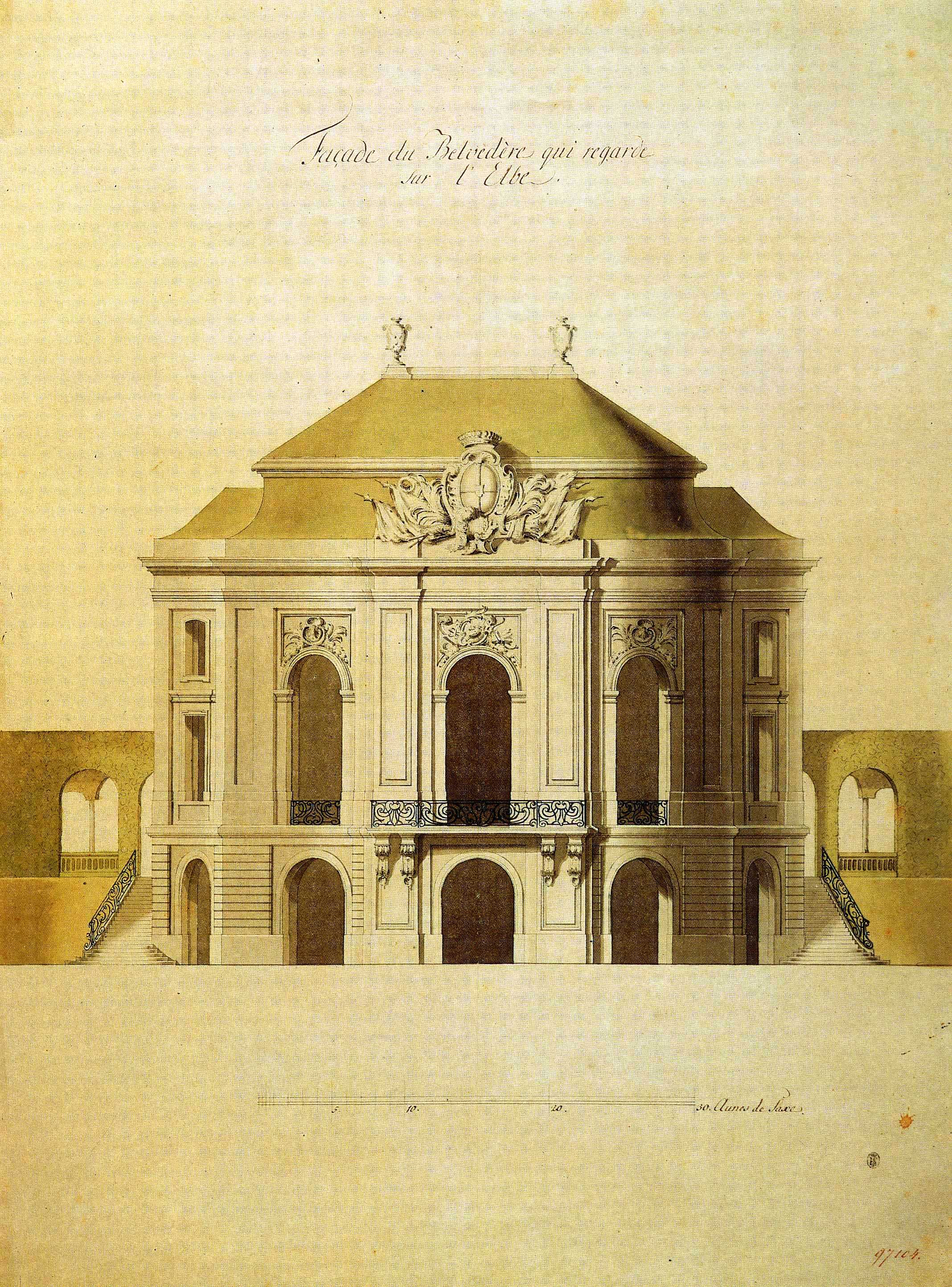 Zweites Belvedere